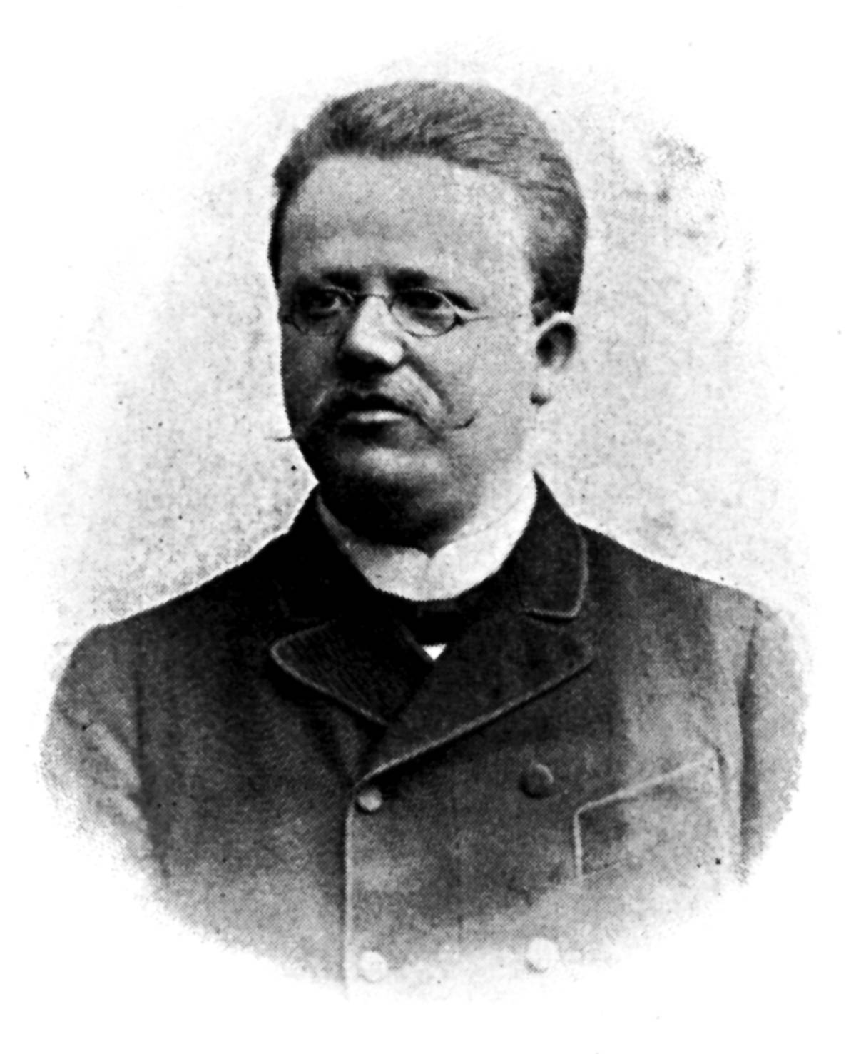 Hermann Oppenheim